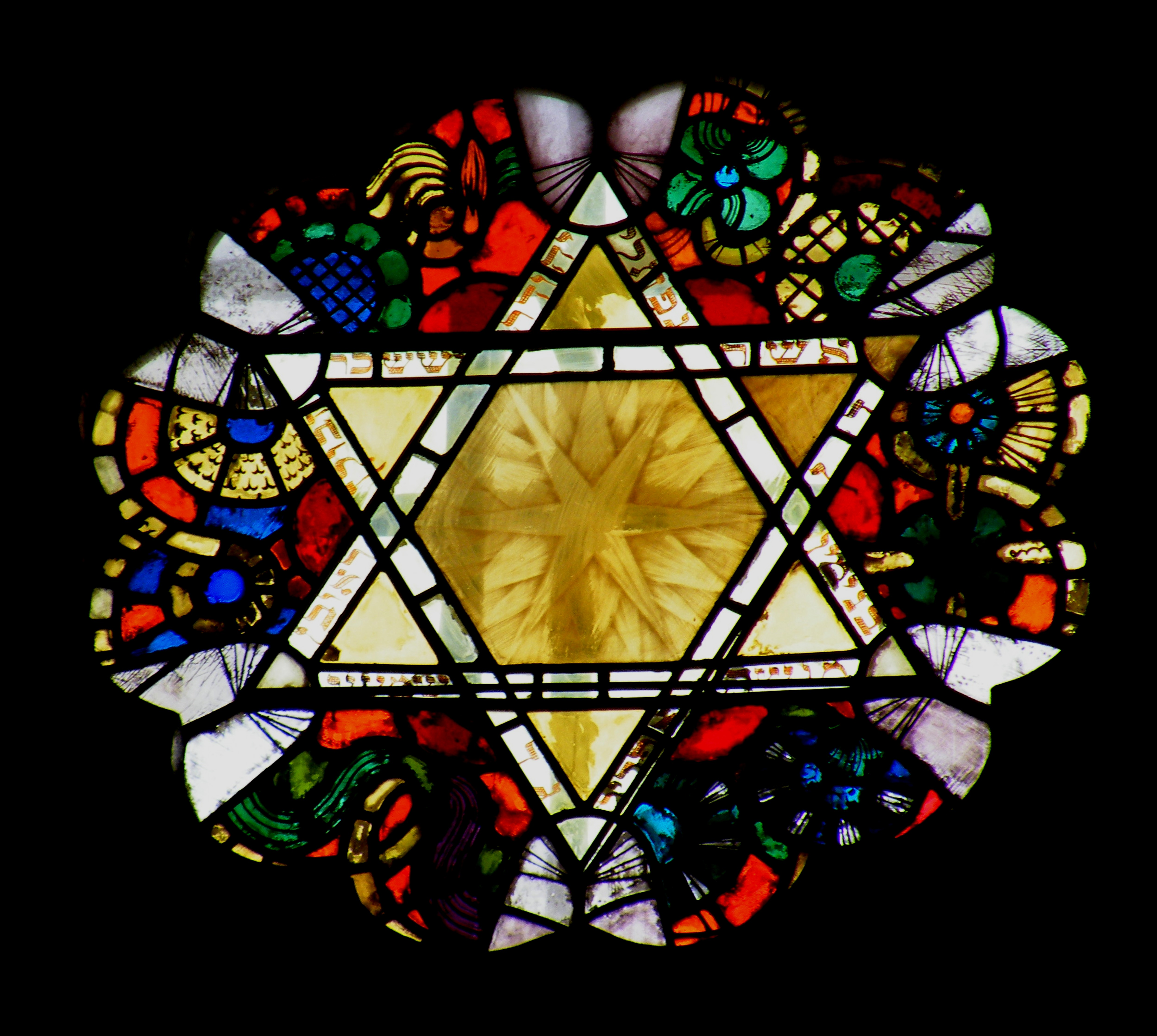 David's Star as seen on a Synagogue window. New West End Synagogue, London, England